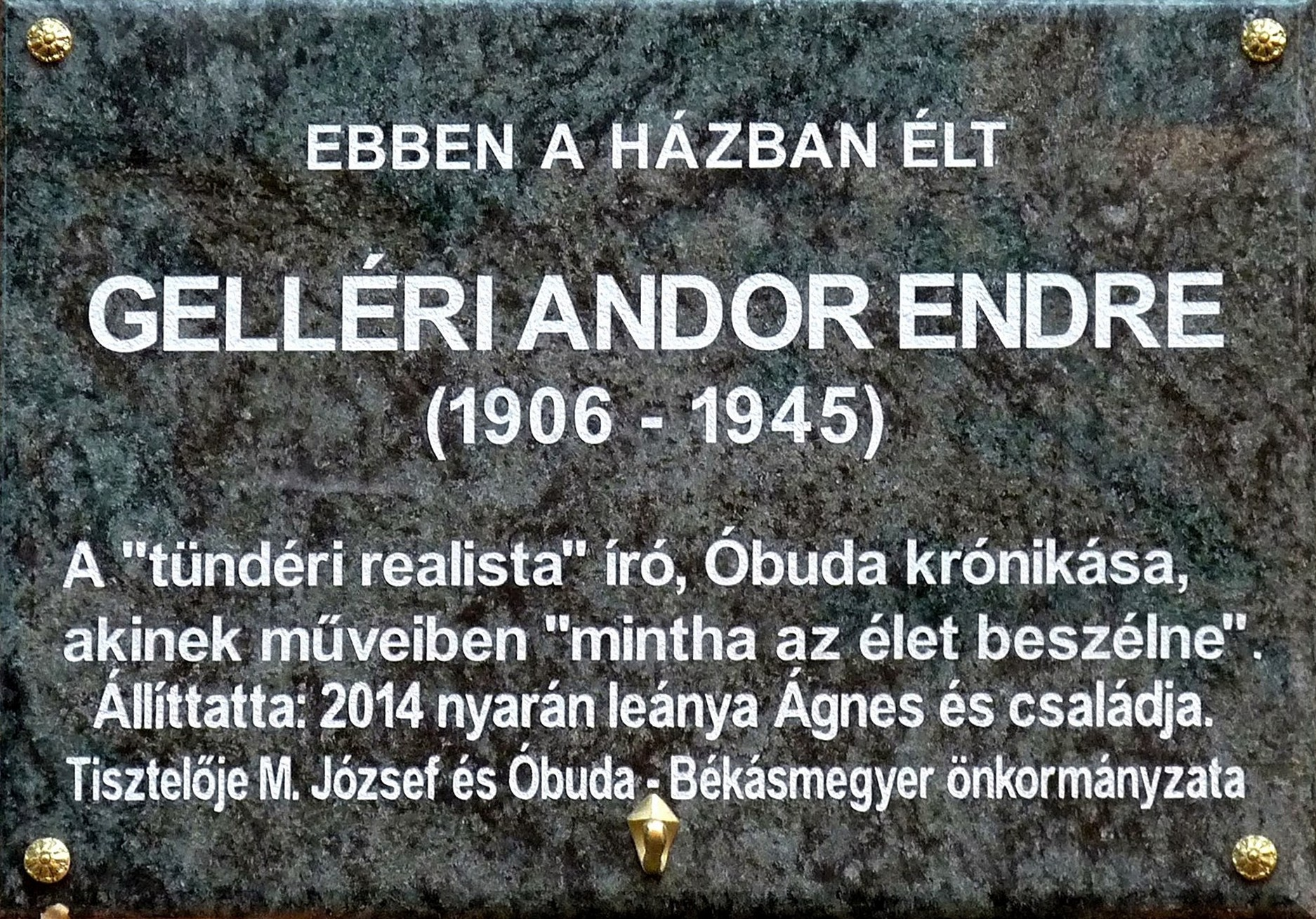 Commemorative plaque to Mr. Andor Endre Gelléri (1906–1945) Hungarian novellist and "fairy realist" writer, one of the chroniclers of Óbuda. It has been affixed to the wall of his former home in summer 2014. (Budapest, District III, Beszterce Street Nr 25)